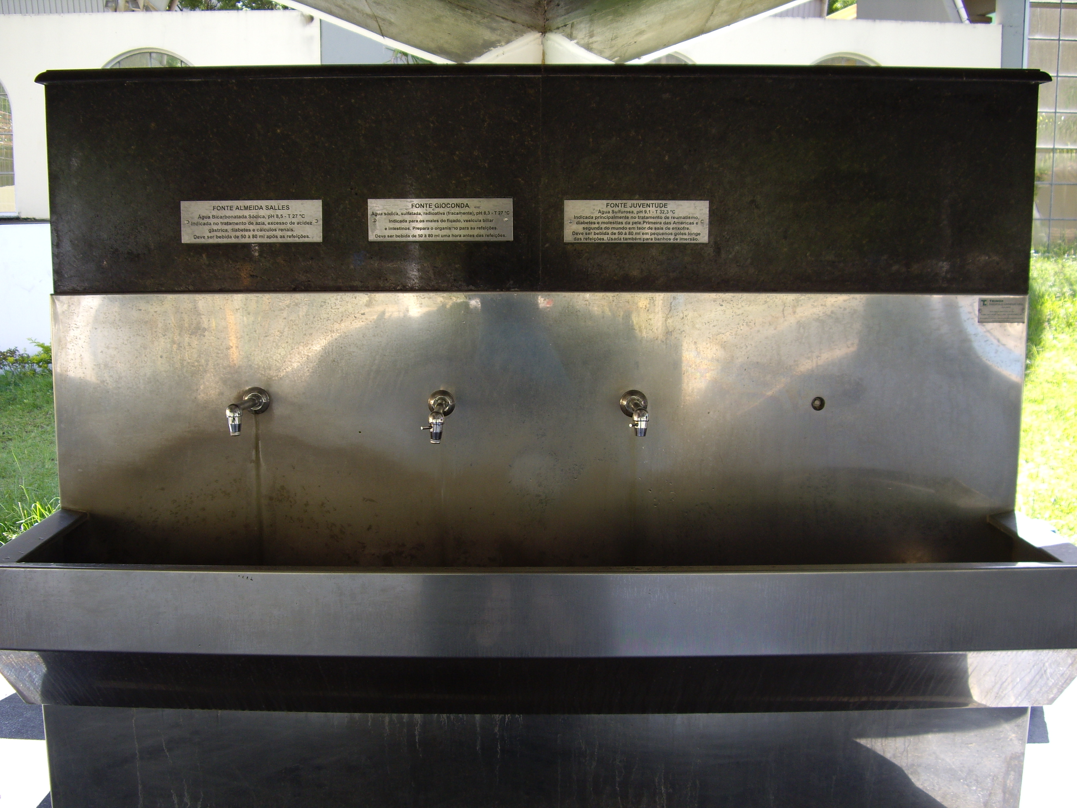 Drinking fountain in Águas de São Pedro. The signs say: ALMEIDA SALLES FOUNTAIN Sodium Bicarbonated Water, pH 8.5 - T 27°C Indicated in the treatment of heartburn, excess of gastric acidity, diabetes and renal calculi. It should be drunk from 50 to 80 ml after meals. GIOCONDA FOUNTAIN Sodium, sulfated, radioactive (weakly) water, pH 8.5 - T 27°C Indicated for liver ailments, gall bladder and intestines. It prepares the body for meals. It should be drunk from 50 to 80 ml one hour before meals. YOUTH FOUNTAIN Sulfurous Water, pH 9.1 - T 32.3°C Mainly indicated in the treatment of rheumatism, diabetes and skin diseases. First of Americas and second of the world in sulfur salts. It should be drunk from 50 to 80 ml in small sips away from meals. Also used for immersion baths.